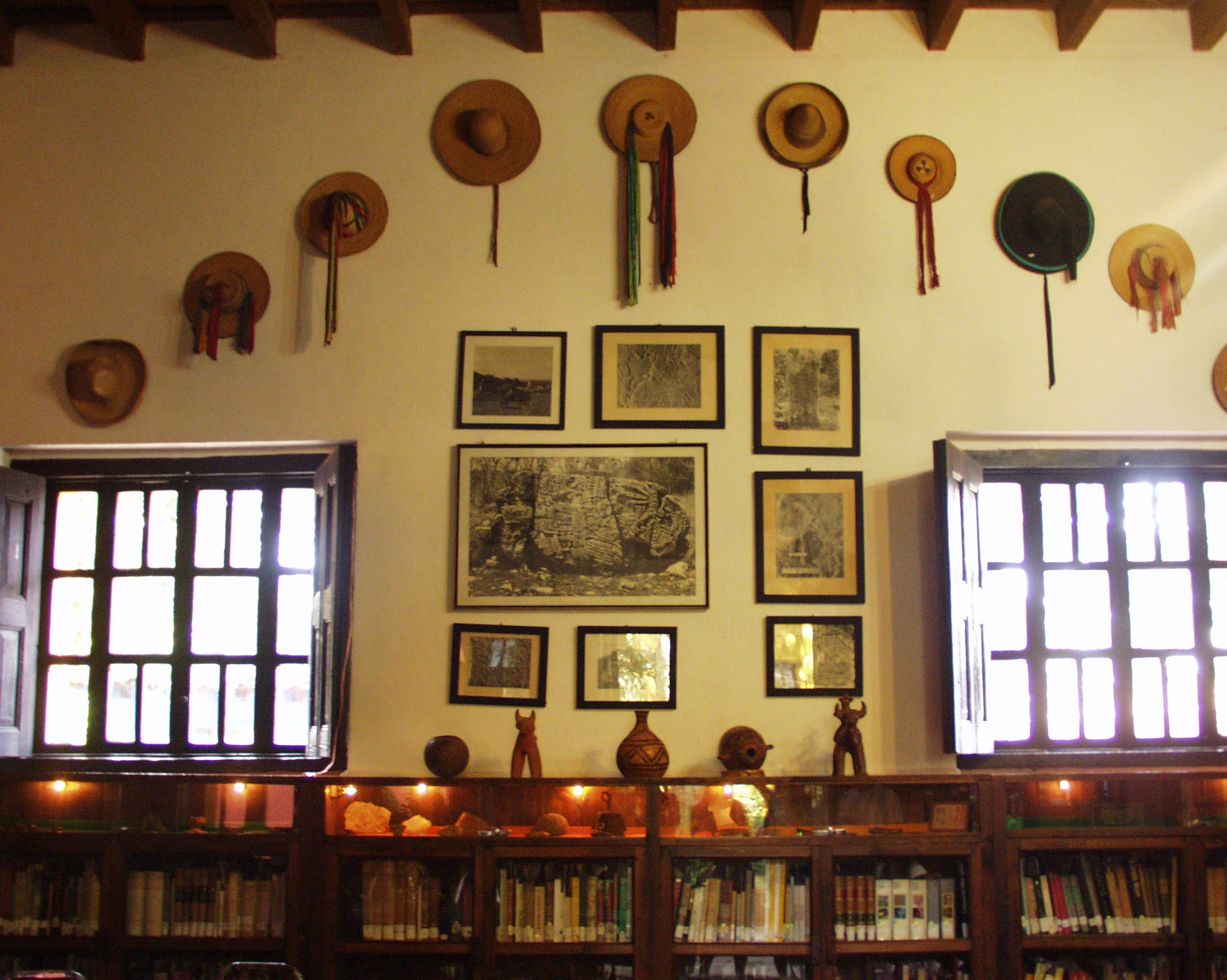 Private library of Frans and Gertrude Blom in Casa Na Bolom.